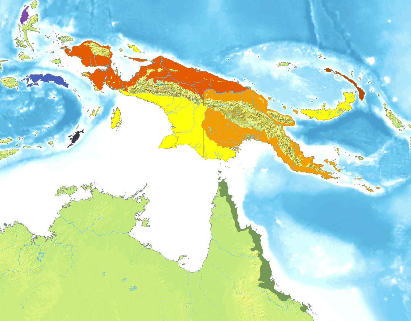 Natural Distribution of GREEN: Morelia kinghorni; RED: Morelia amethistina from New Ireland; DARK-ORANGE: northern form of Morelia amethistina; YELLOW: southern form of Morelia amethistina; BRIGHT-ORANGE: area of sympathry of the norhern and southern form of Morelia amethistina; BLUE: Morelia tracyae; PURPLE: Morelia clastolepis; BLACK Morelia nauta. Based on the description of: M. B. Harvey, D. G. Barker, L. K. Ammerman, P. T. Chippindale: Systematics of Pythons of the Morelia amethistina Complex (Serpentes: Boidae) with the Description of three new Species. Herpetological Monographs 14, 2000, p. 139-185. J. Augusteyn: Southerly range extension for the amethystine python Morelia kinghorni (Squamata:Boidae) in Queensland. Memoirs of the Queensland Museum 49, Heft 2, 2004, p. 602; S. L. Fearn, D. Trembath: Southern distribution limits and a traslocated population of scrub python Morelia kinghorni (Serpentes: Pythonidae) in tropical Queensland. Herpetofauna 36, Heft 2, 2006, p. 85-87. In consideration of mountain ranges. This is a derivate work of a blank map originating from This image is in the public domain because it came from the site and was released by the copyright holder. Permission is granted to copy, distribute and/or modify this map since it is based on free of copyright images from: See also approval email on de.wp and its clarification.